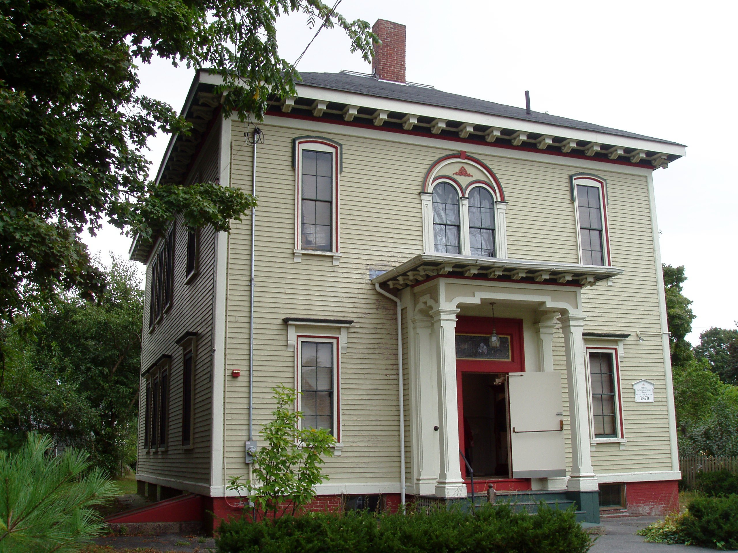 Josiah Bartlett Museum (exterior) - Amesbury, Massachusetts. Photograph taken by me, 2005.